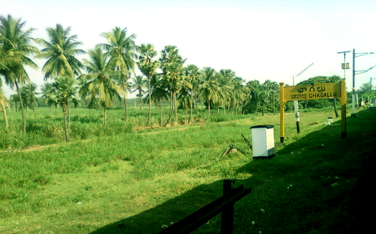 A View at Chagallu Train station in West Godavari district of Andhra Pradesh